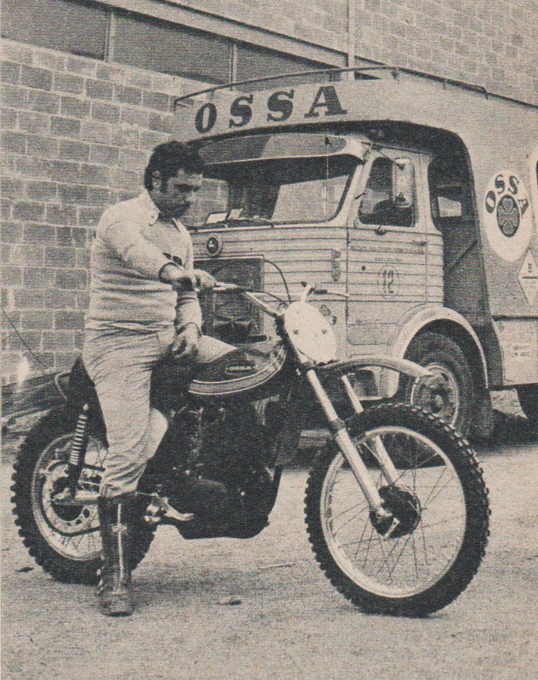 Domingo Gris at OSSA factory in 1974, on the OSSA Phantom